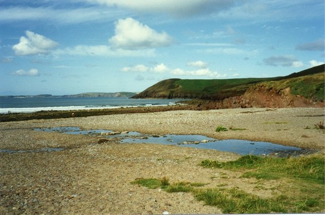 Shingle beach at Manorbier Bay, Pembroke